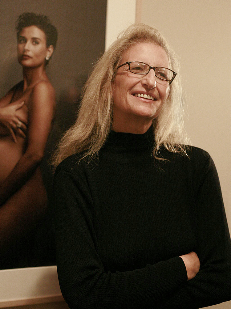 This photo shot by Marc Silber of Annie Leibovitz is one of the most famous photographers alive today. She shoots for magazines, was Rolling Stone's photographer, and has made images of many of the world's most famous people.